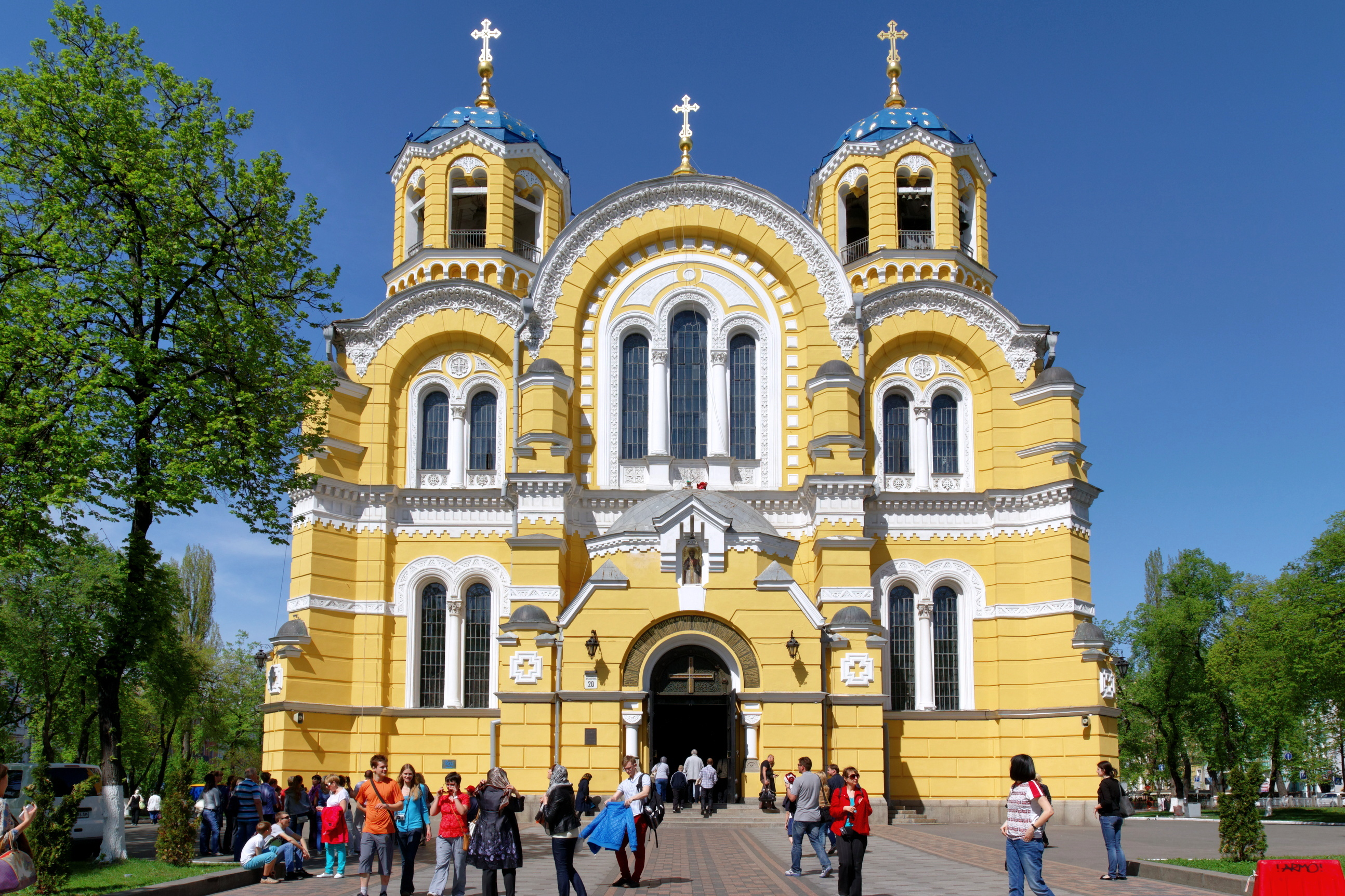 Kiev. Saint Volodymyr's Cathedral